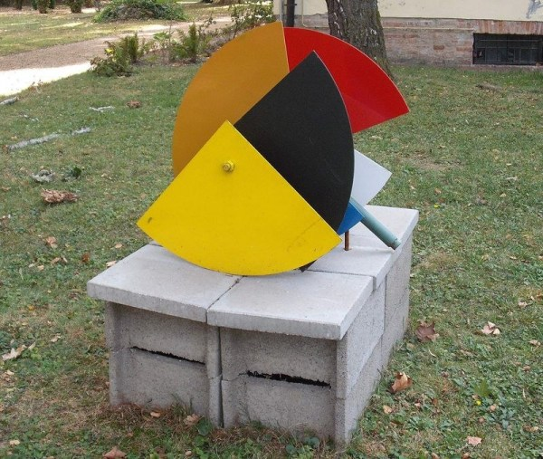 Free Bird (Szigetvár, Hungary)